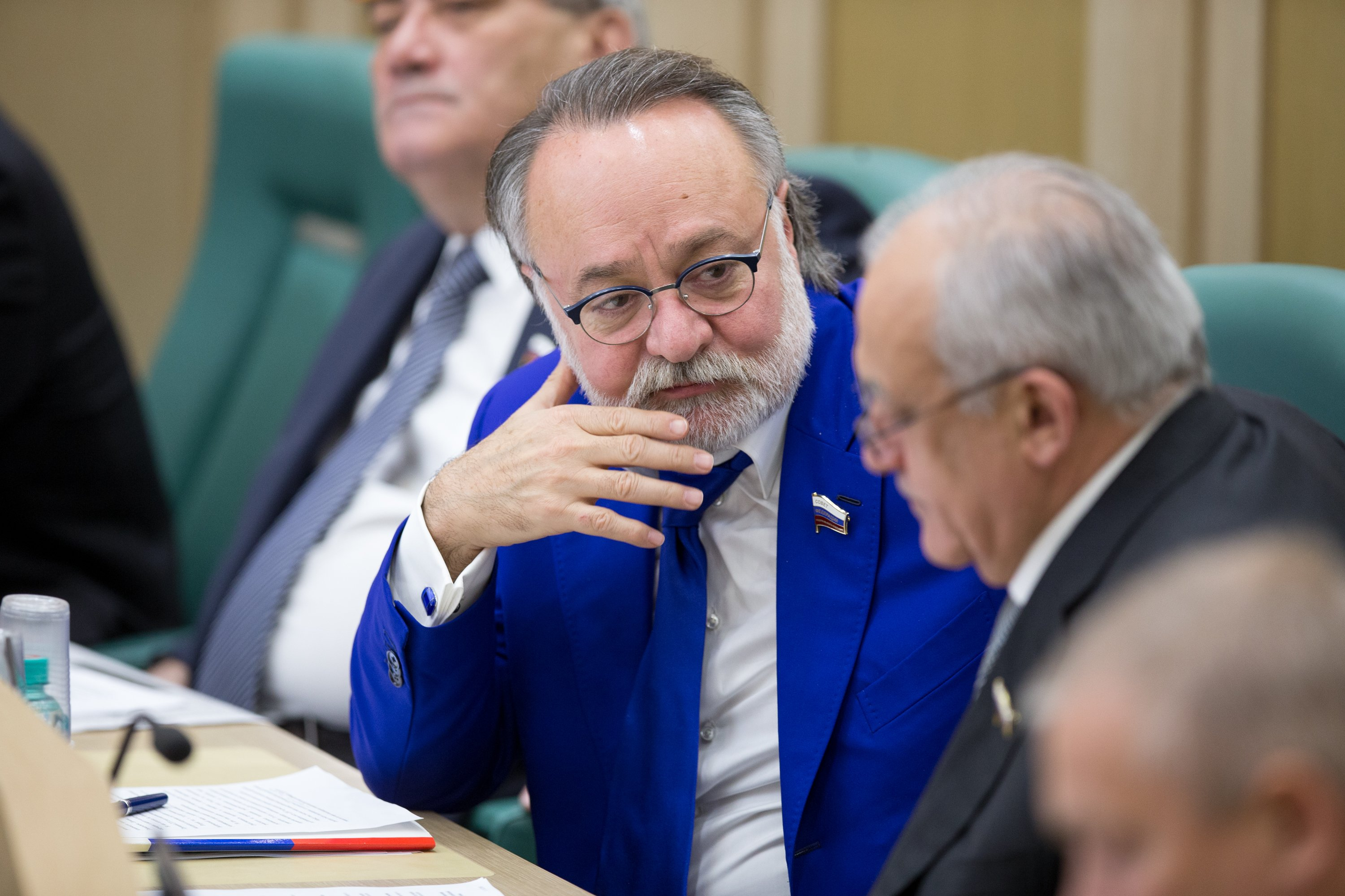 Alexander Totoonov